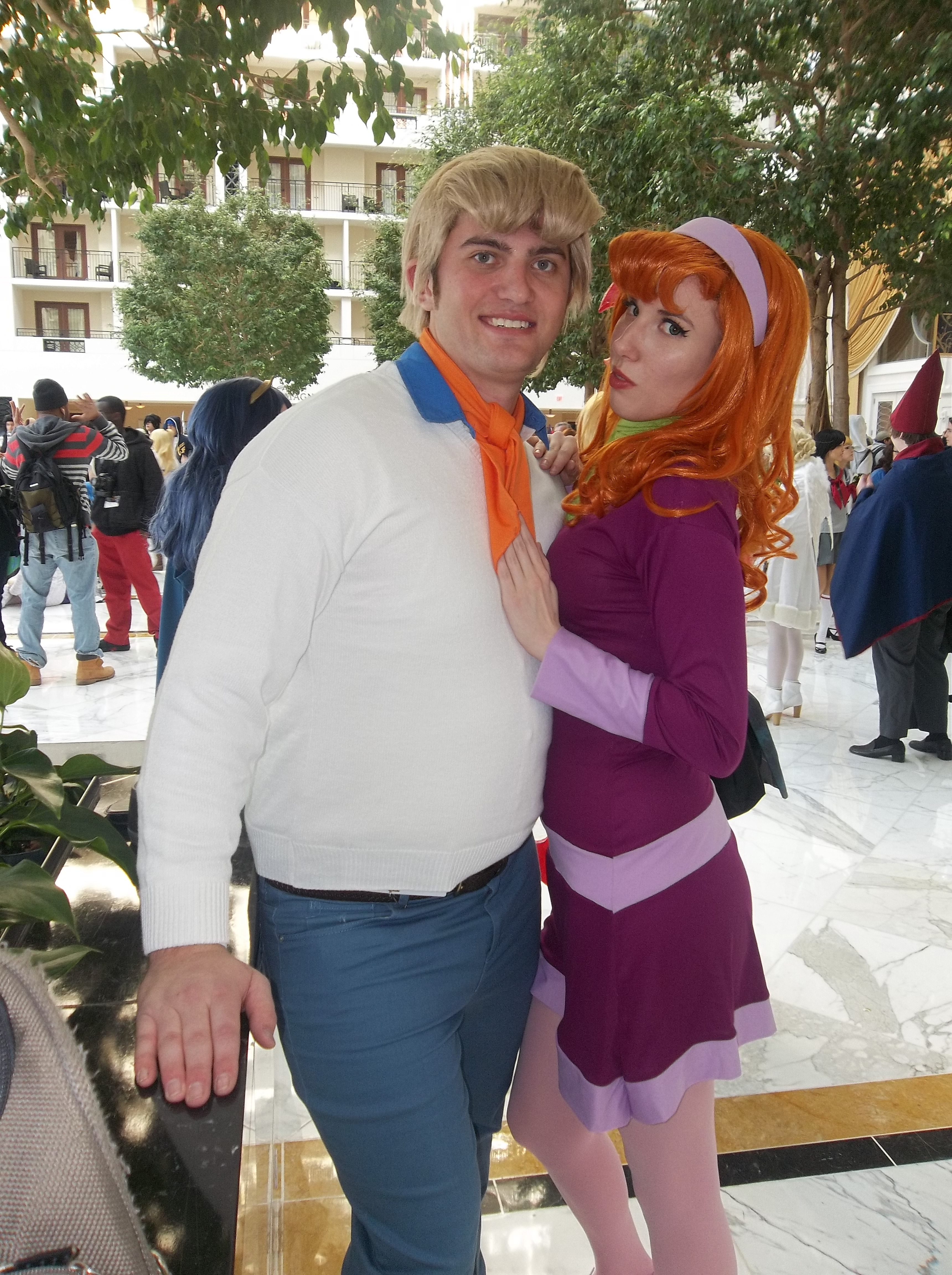 Fred Jones and Daphne Blake from the Scooby-Doo series at Katsucon 2015 in Maryland, United States.